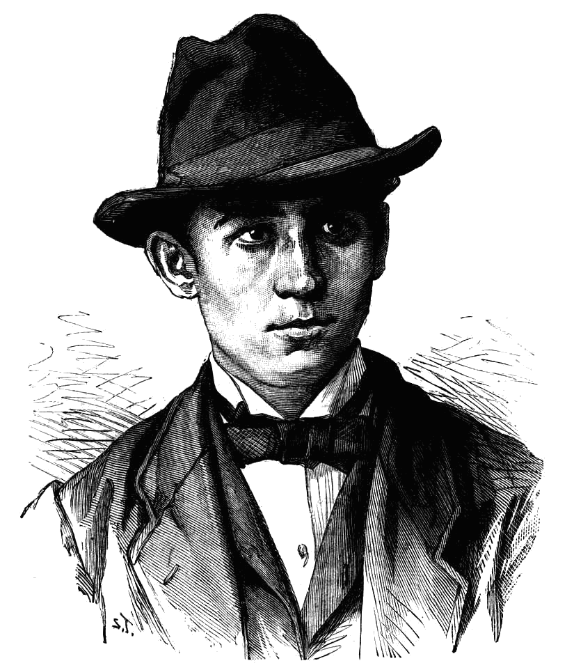 This is a picture of Max Hödel.